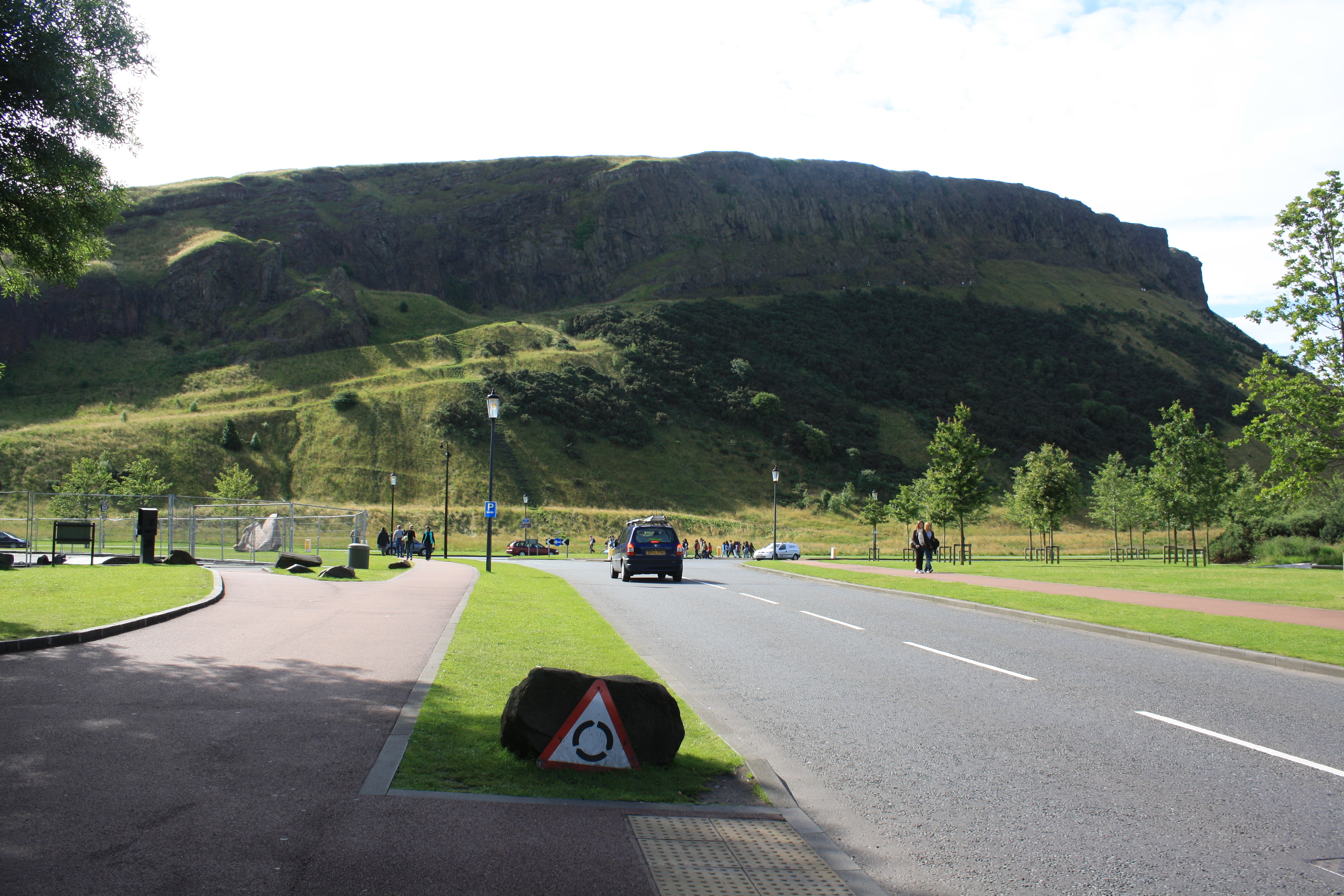 Arthur's Seat, Edinburgh from ground level